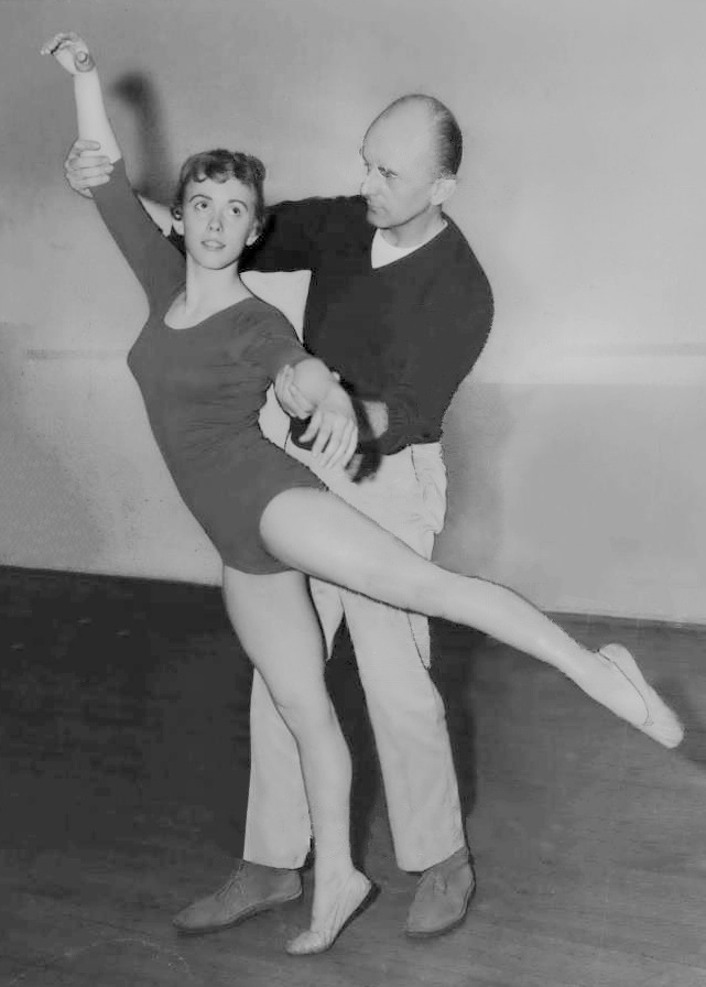 1960 Press Photo Gymnast Betty Maycock & Ballet instructor Alex Martin